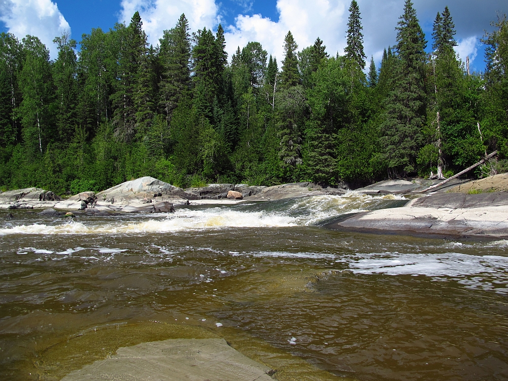 Stuart's Rapids on the Blanch River, Ontario, Canada.